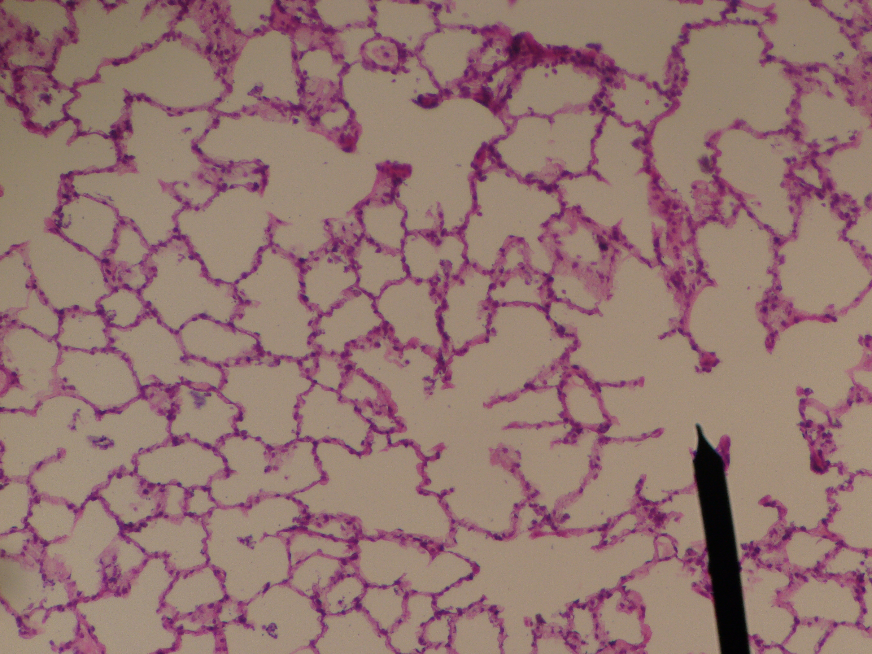 A histiologic slide of a human alveolar sac. Picture taken with a digital camera thru a microscope.